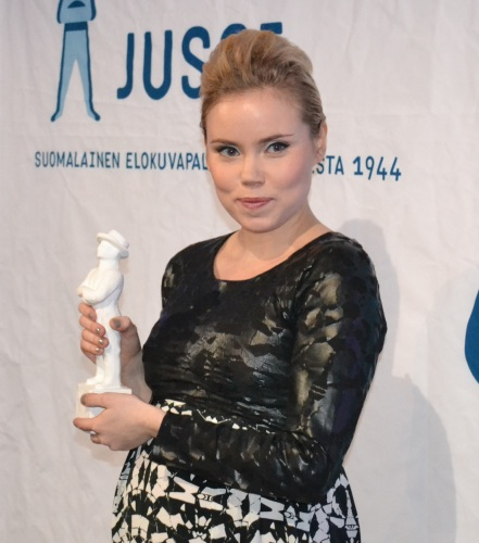 Sara Melleri in 2010 Jussi Award.